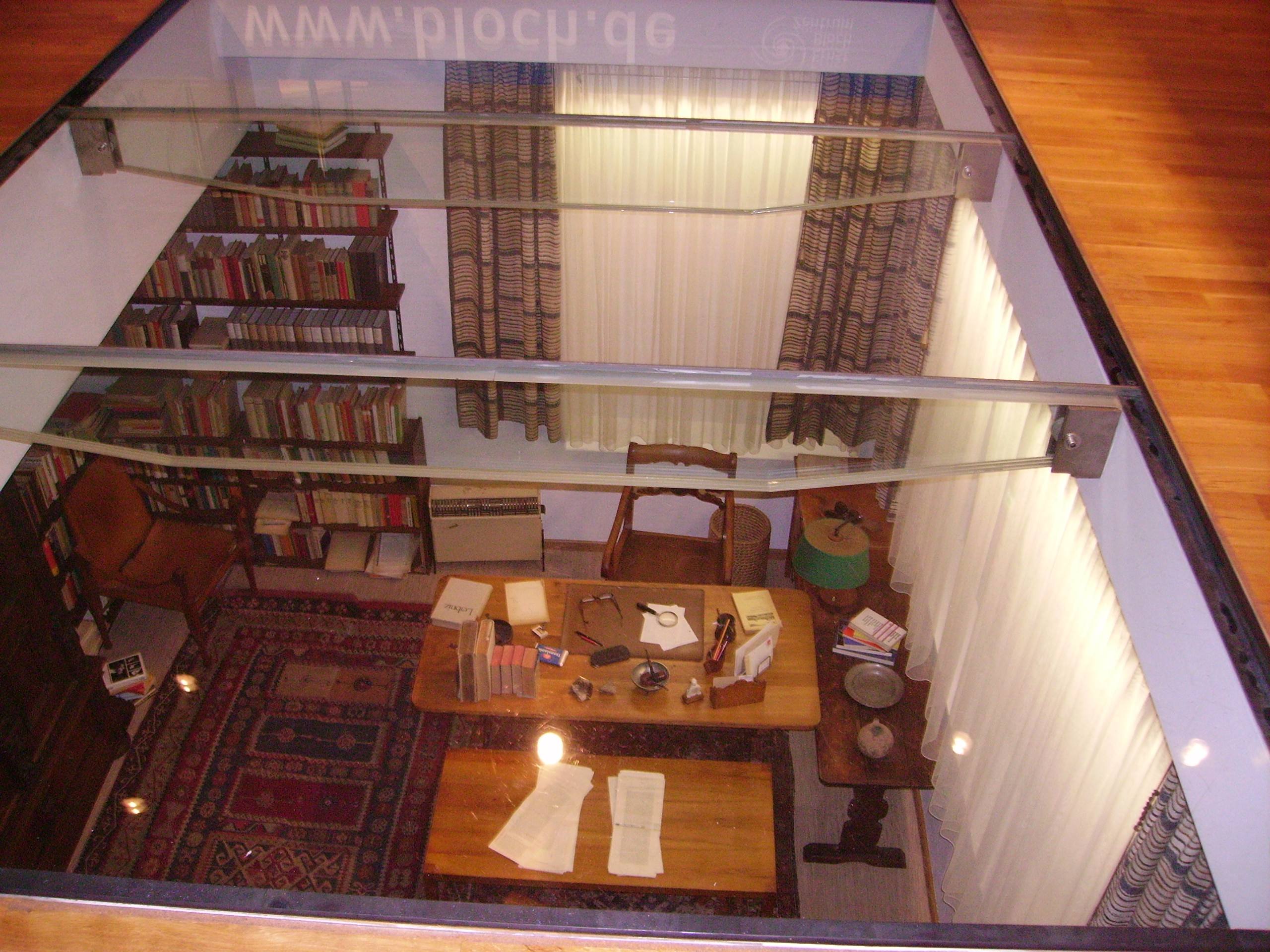 Ernst-Bloch-Zentrum in Ludwigshafen, Germany